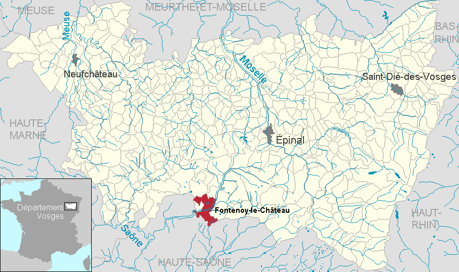 Fontenoy-le-Château in the department of Vosges, Lorraine, France